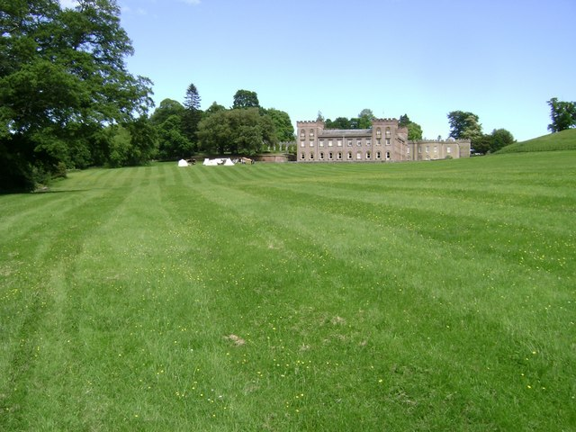 Ugbrooke House and its park The tents represented a 17th century encampment, one of the displays laid on for the garden opening in aid of lifeboats.